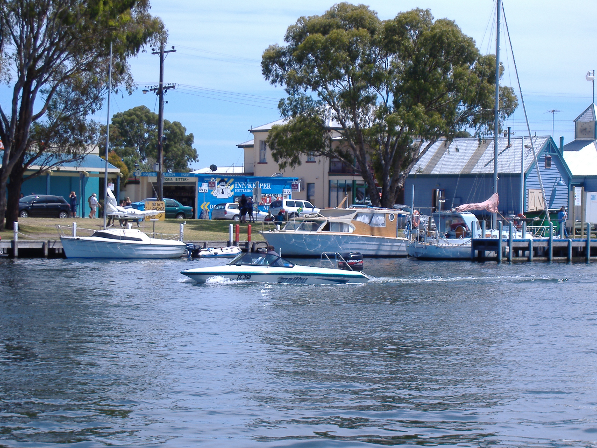 Photo taken from the water looking out over the main Paynesville, Victoria foreshore.